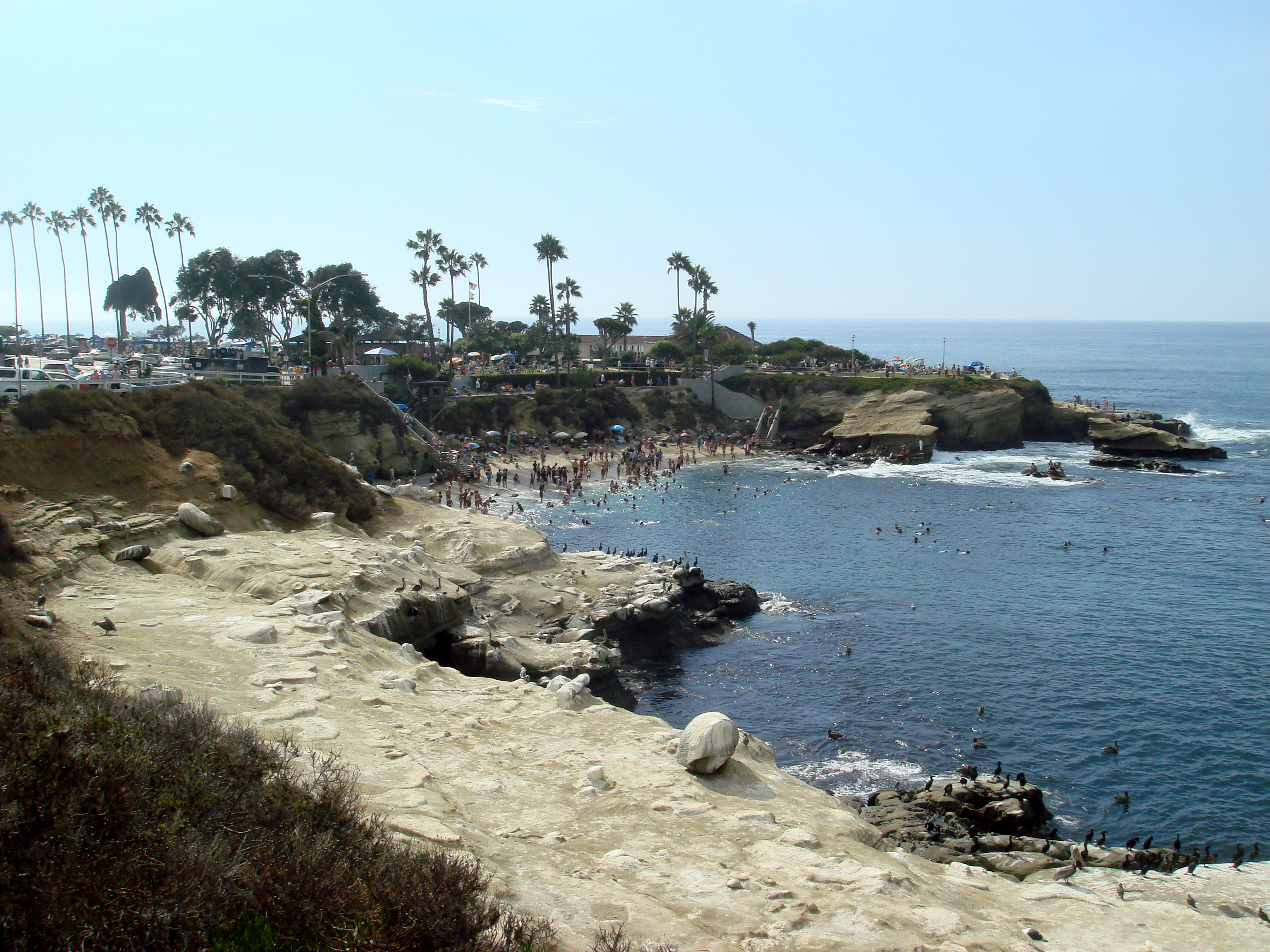 La Jolla Cove in La Jolla, San Diego, California on a holiday (Labor Day) weekend.